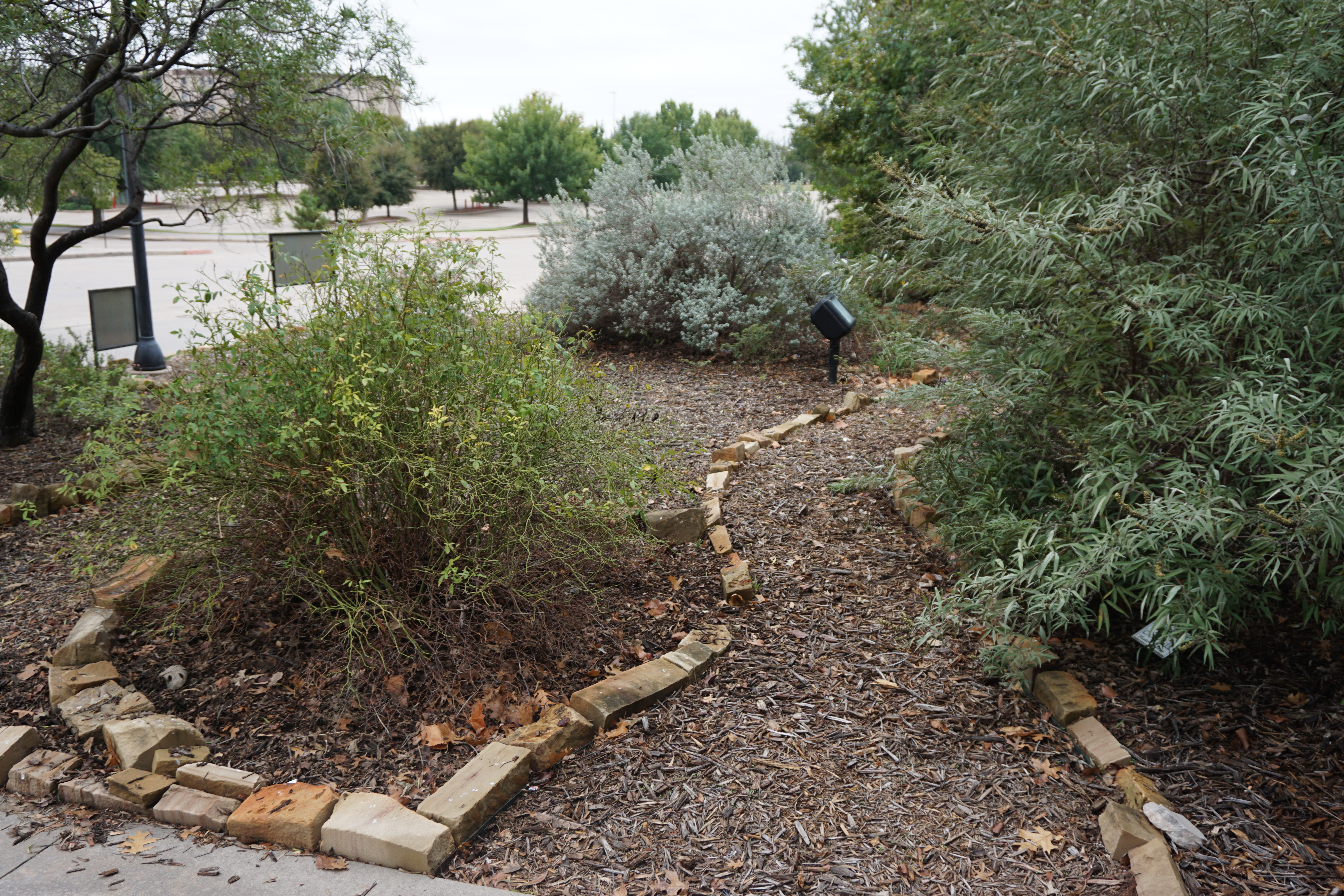 The Al Norris Memorial Xeriscape Garden in Wichita Falls, Texas (United States).